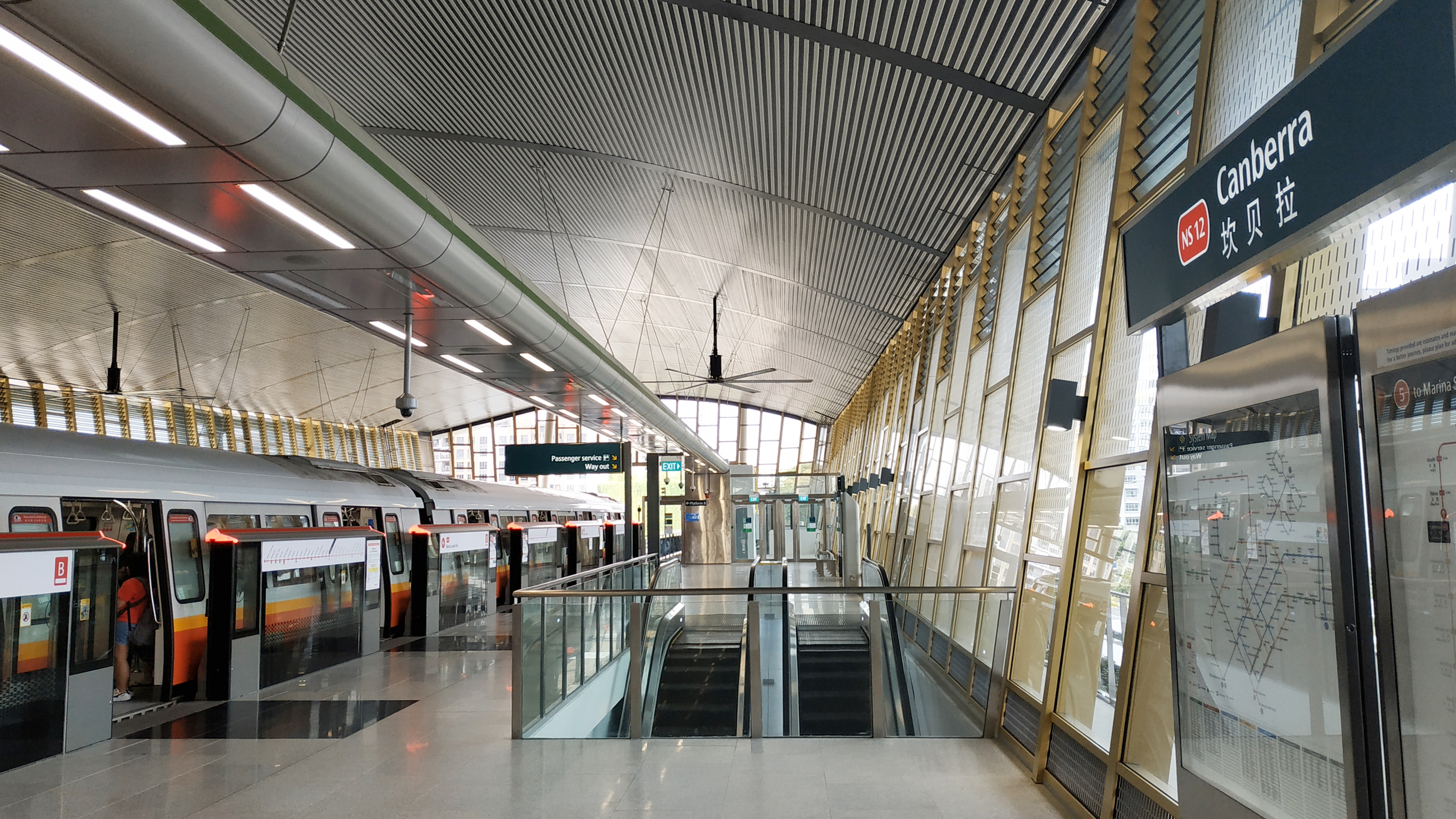 Canberra MRT station in Singapore.